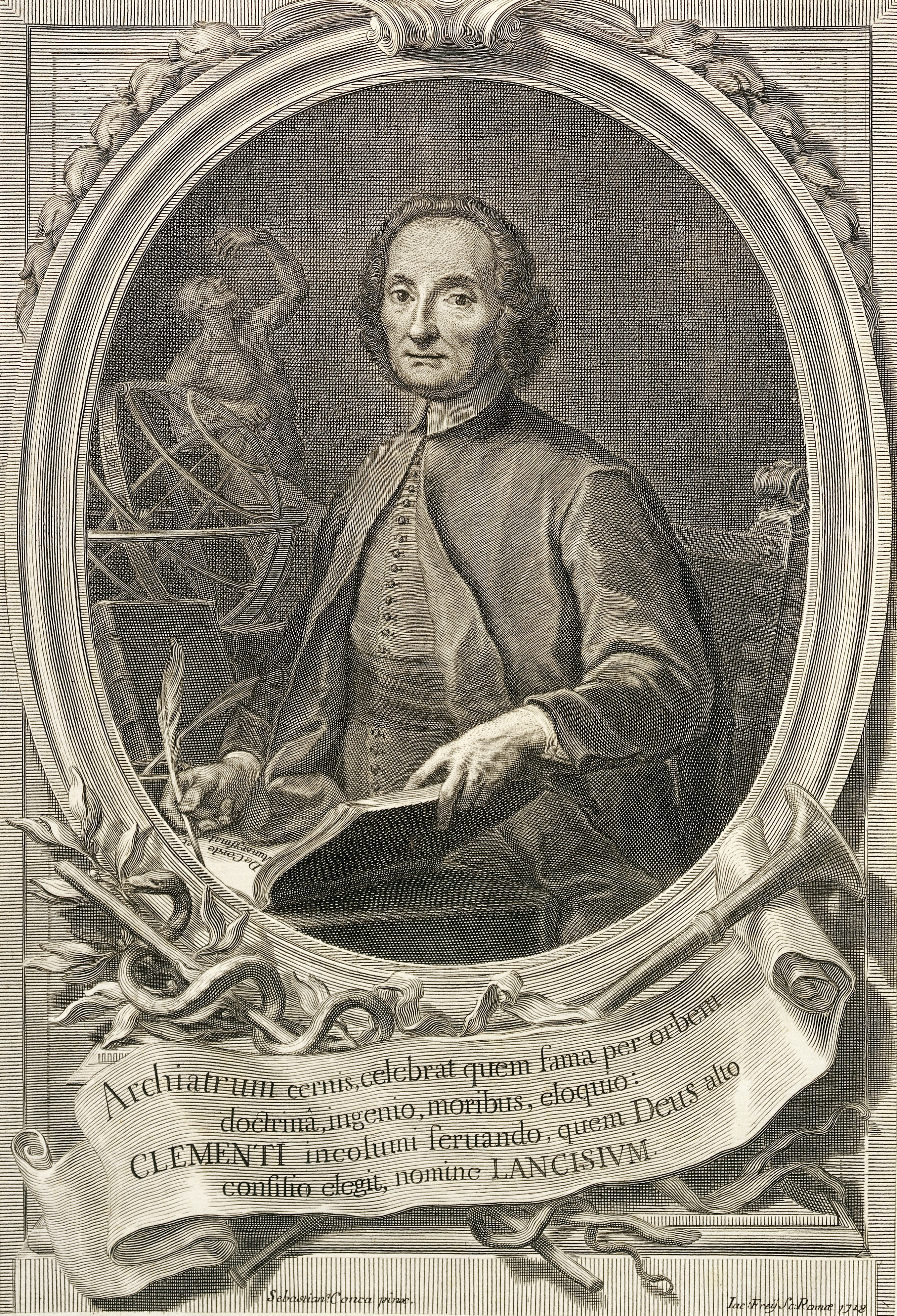 LANCISI, Giovanni Maria {1654-1720} G.M. Lancisi, De motu cordis et aneurysmatibus. Opus posthumum. Romae : Apud Joannem Mariam Salvioni, 1728. Frontispiece portrait of the author